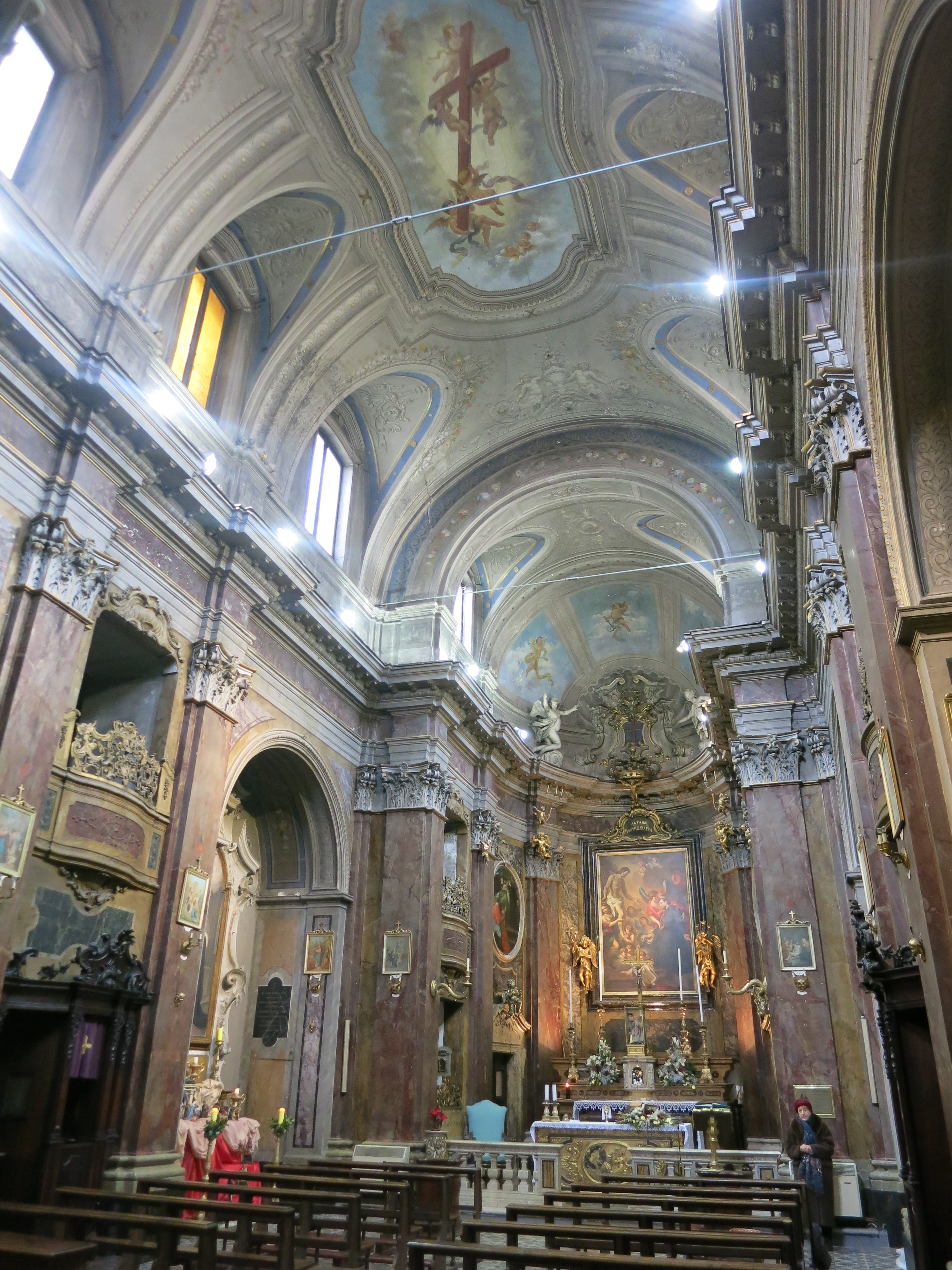 Church of San Rufo - Rieti, Lazio, Italy